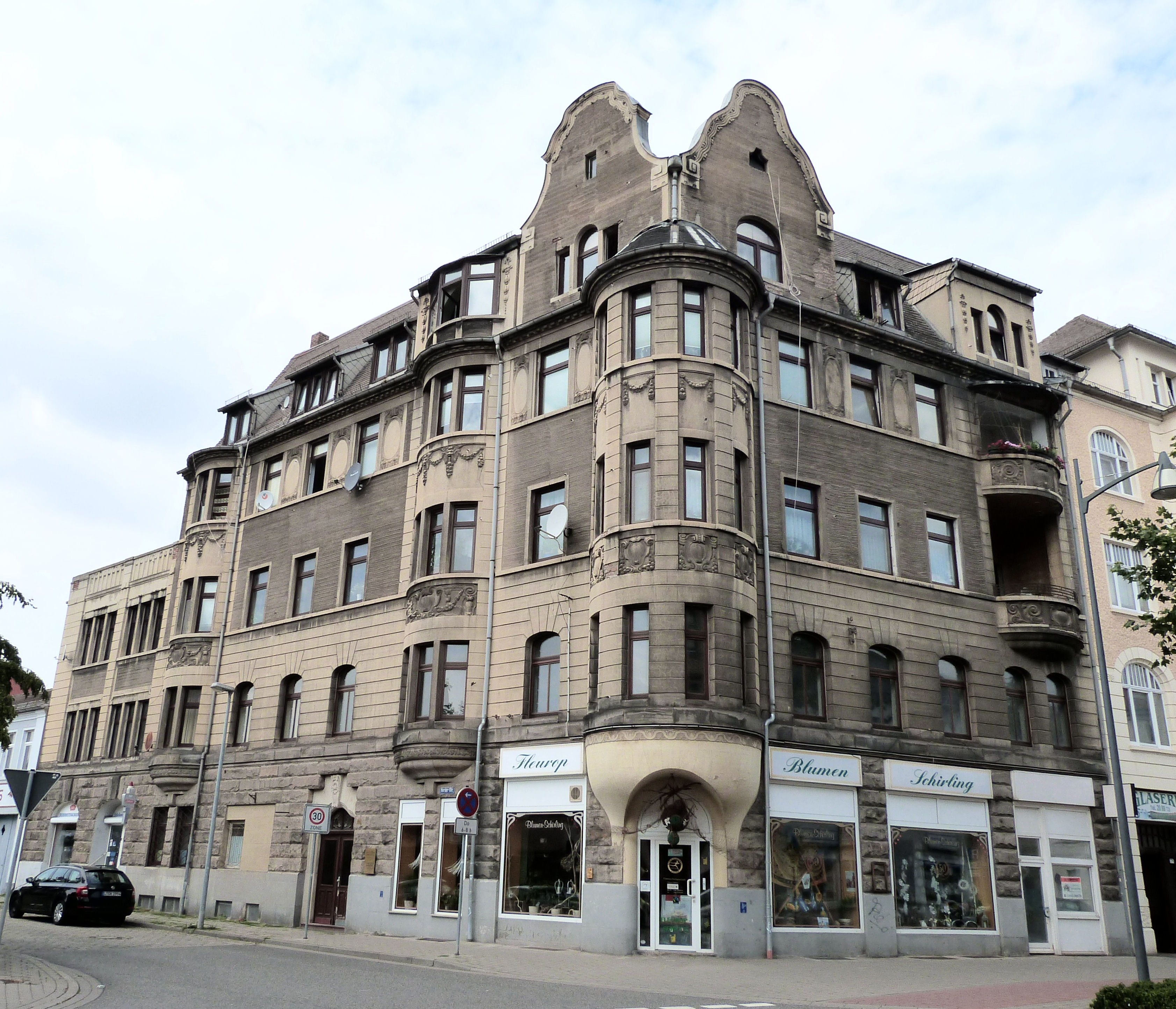 House No. 26a, Merseburger Strasse, Weissenfels, Saxony-Anhalt